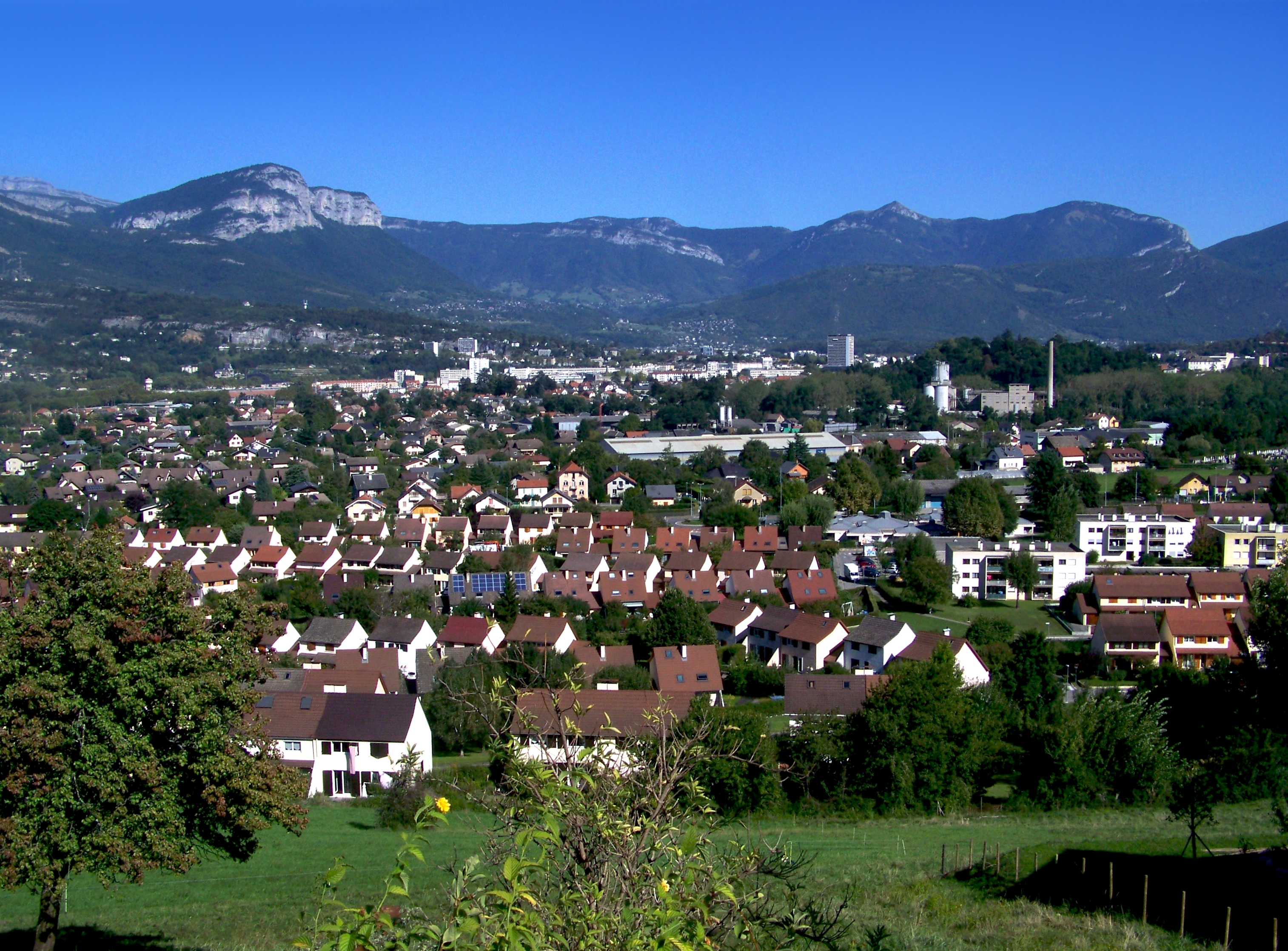 Panoramic view of Cognin (houses in the foreground) and Chambéry (background), in Savoie, France.